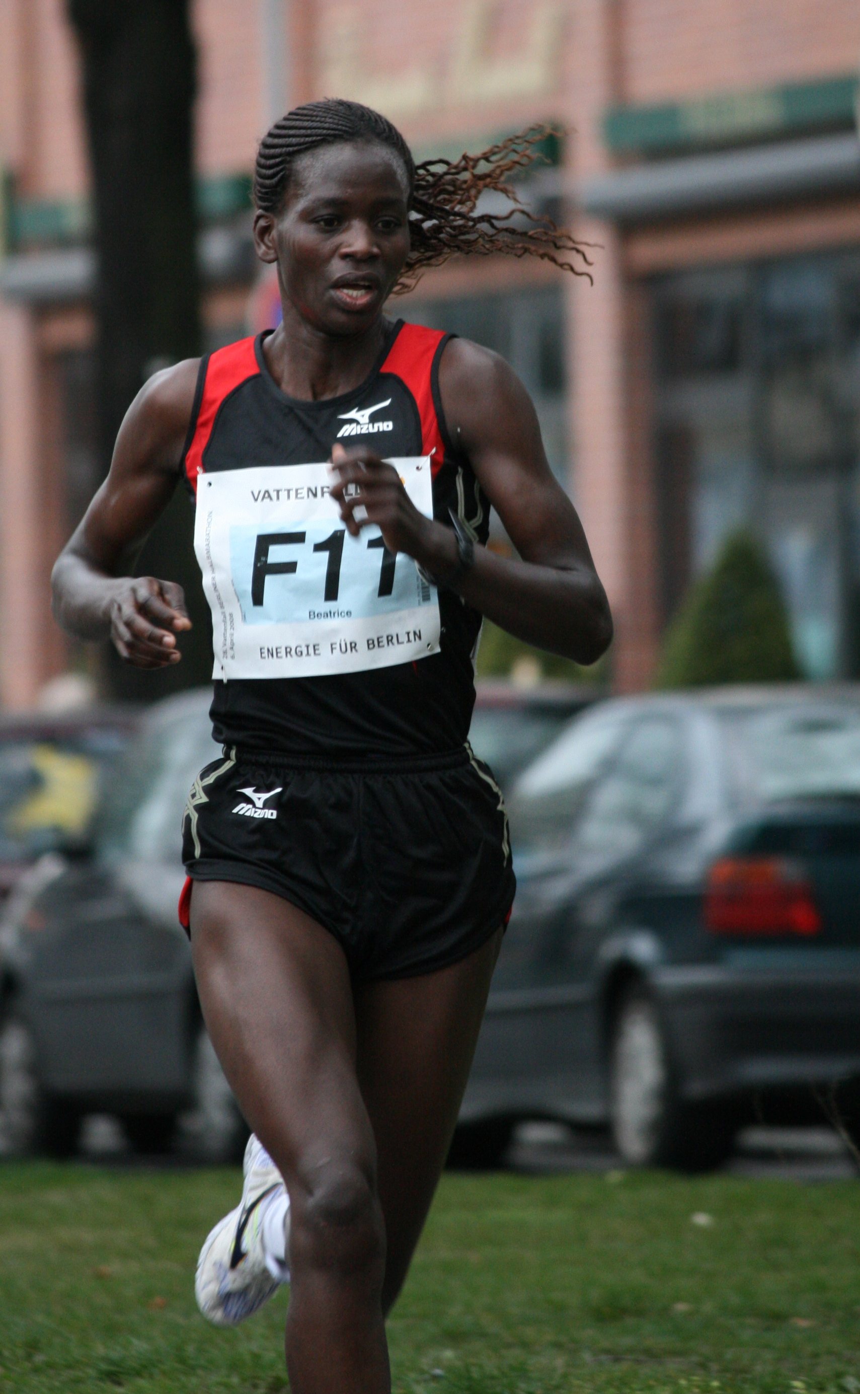 Beatrice Omwanza at the Berliner Halbmarathon 2008